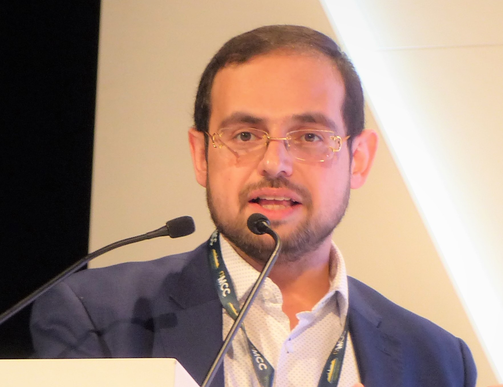 Aimen Dean. Former undercover agent at M16 within Al-Qaeda. MCC Budapest Summit on Migration, third day, on the 24th of March, 2019.